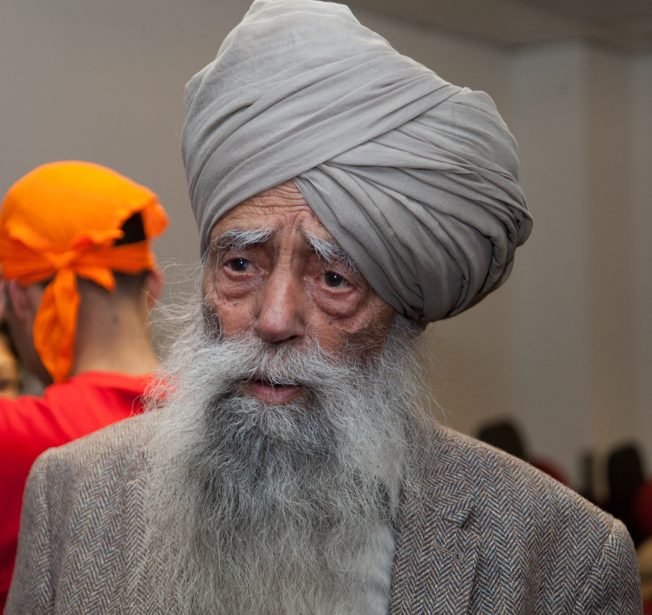 Fauja Singh (2013)